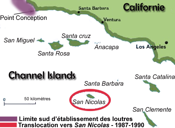 translocation of californian sea otter (Enhydra lutris nereis) from the north of point conception to san nicolas island (1987-2000).